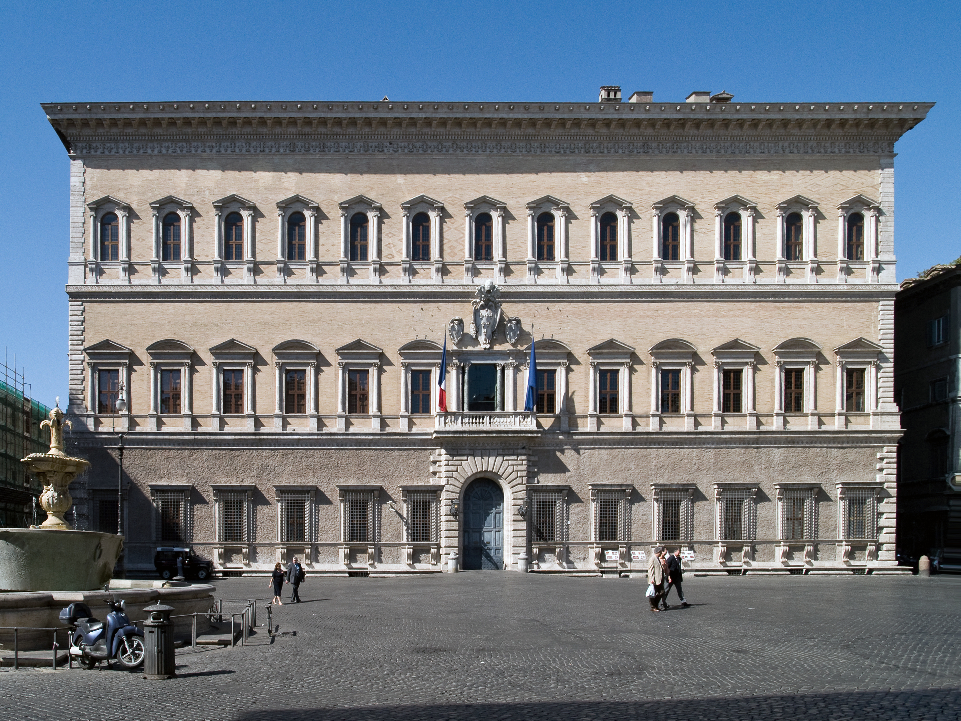 Palazzo Farnese in Rome (16th century). Since 1874 it has been the French Embassy in Italy.